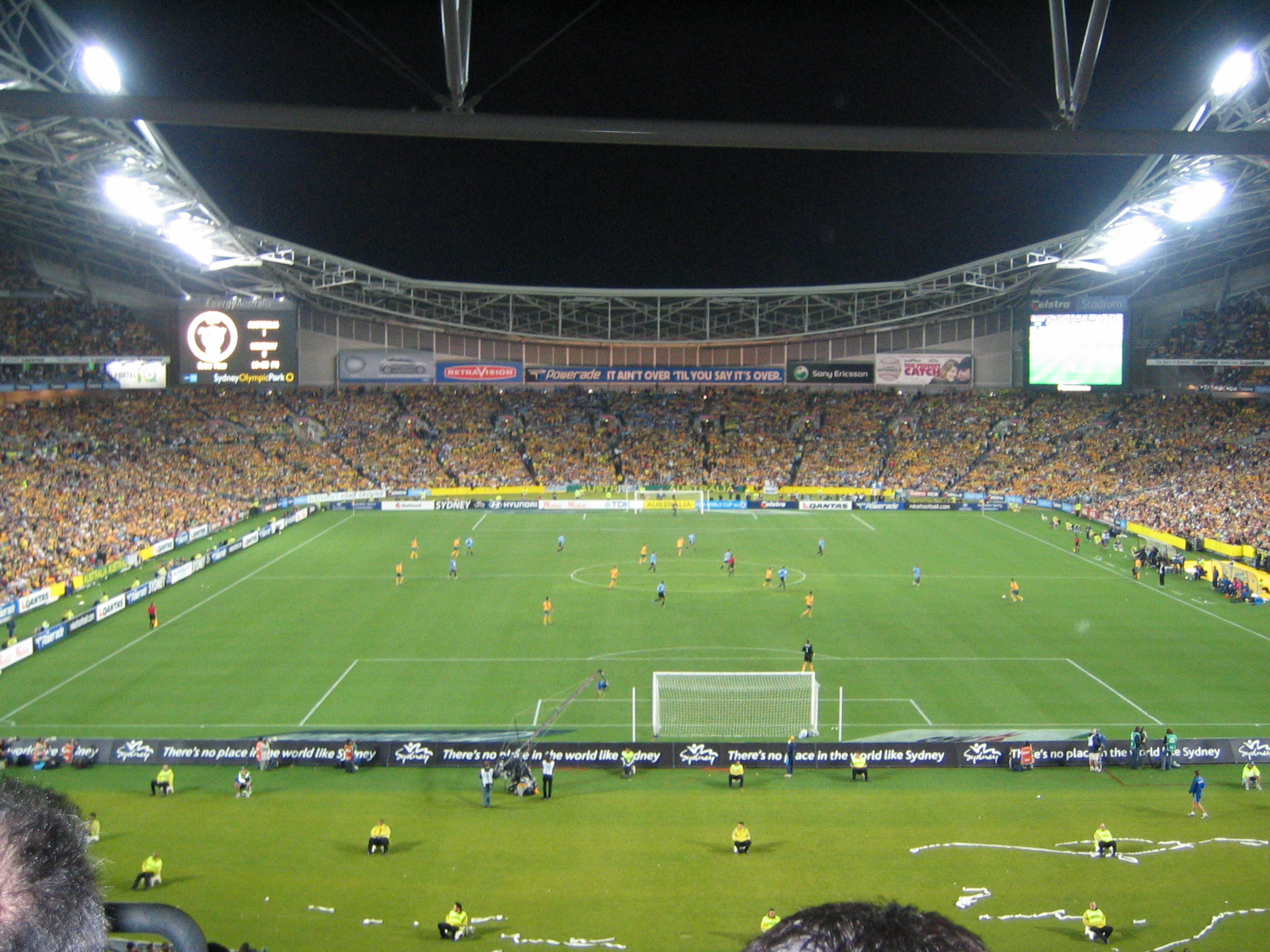 Australia playing Uruguay at ANZ Stadium (formerly Telstra Stadium) in 2005; the match is in the second period of extra time.